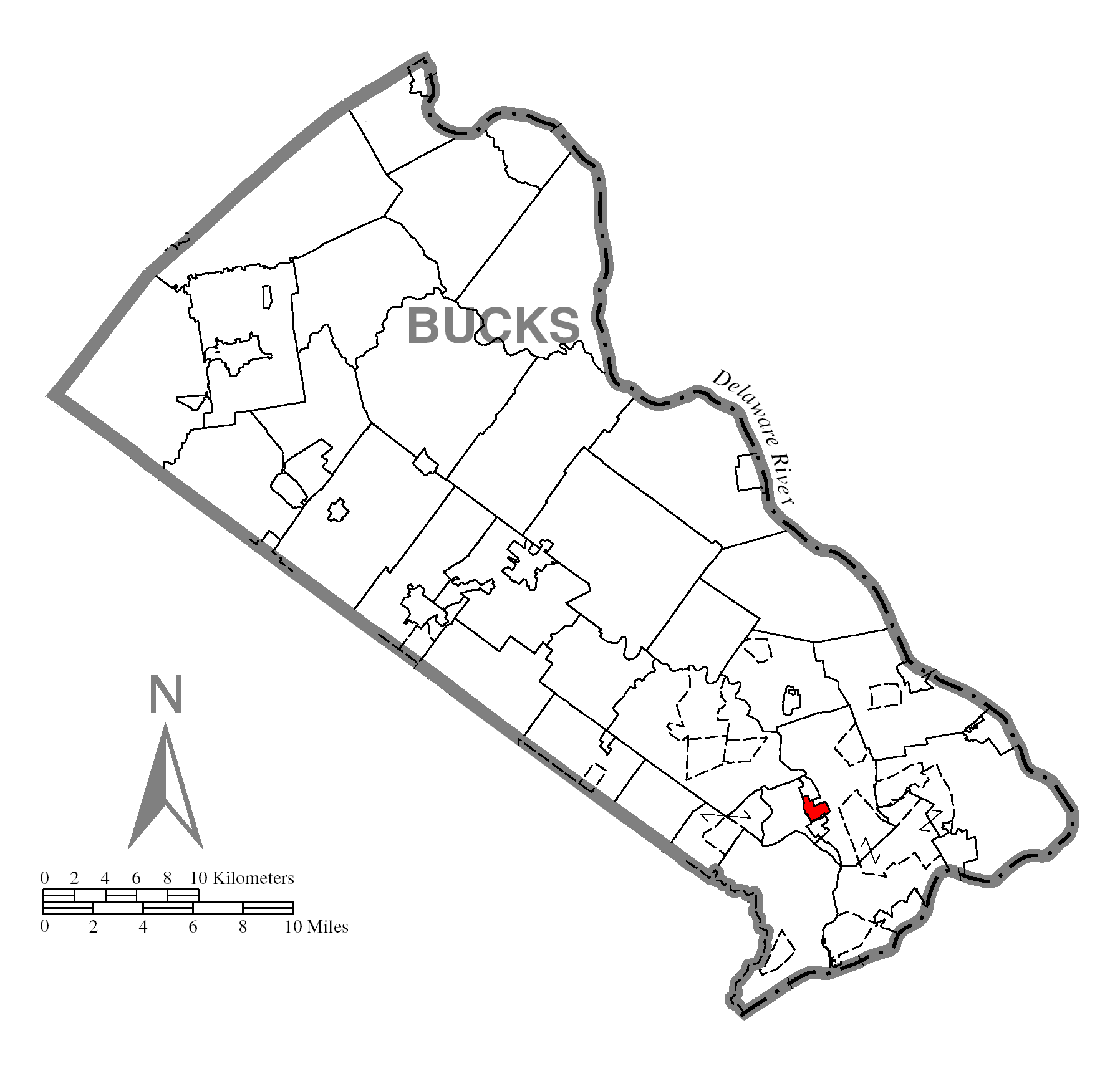 A map of Bucks County showing Lanhorne Manor, Pennsylvania (alternate) highlighted on the map.